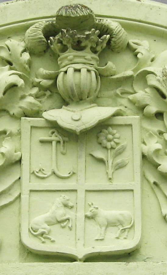 Pruncul Chapel in Suceava - Pruncul family crest.